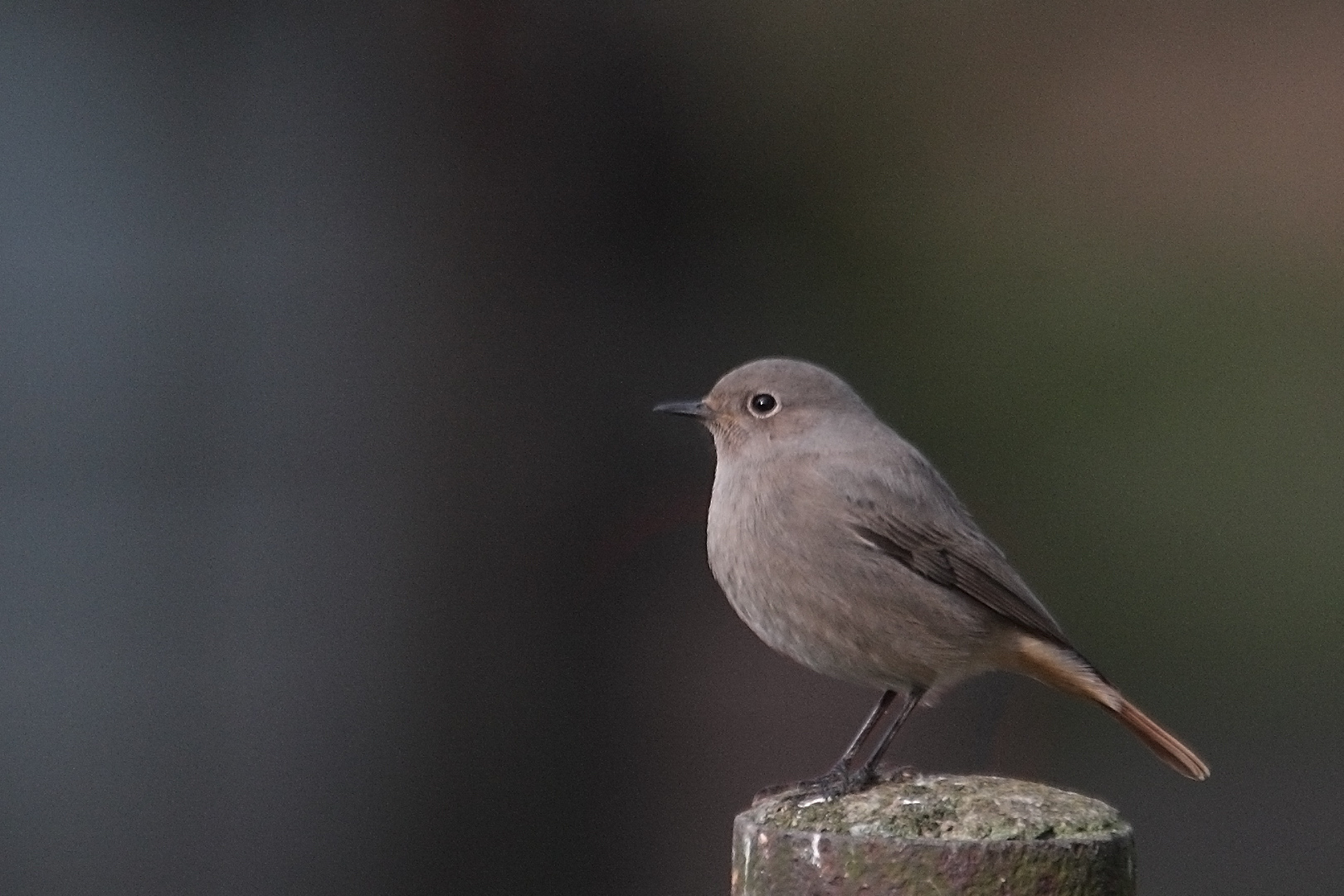 The Black Redstart, Lodz(Poland)